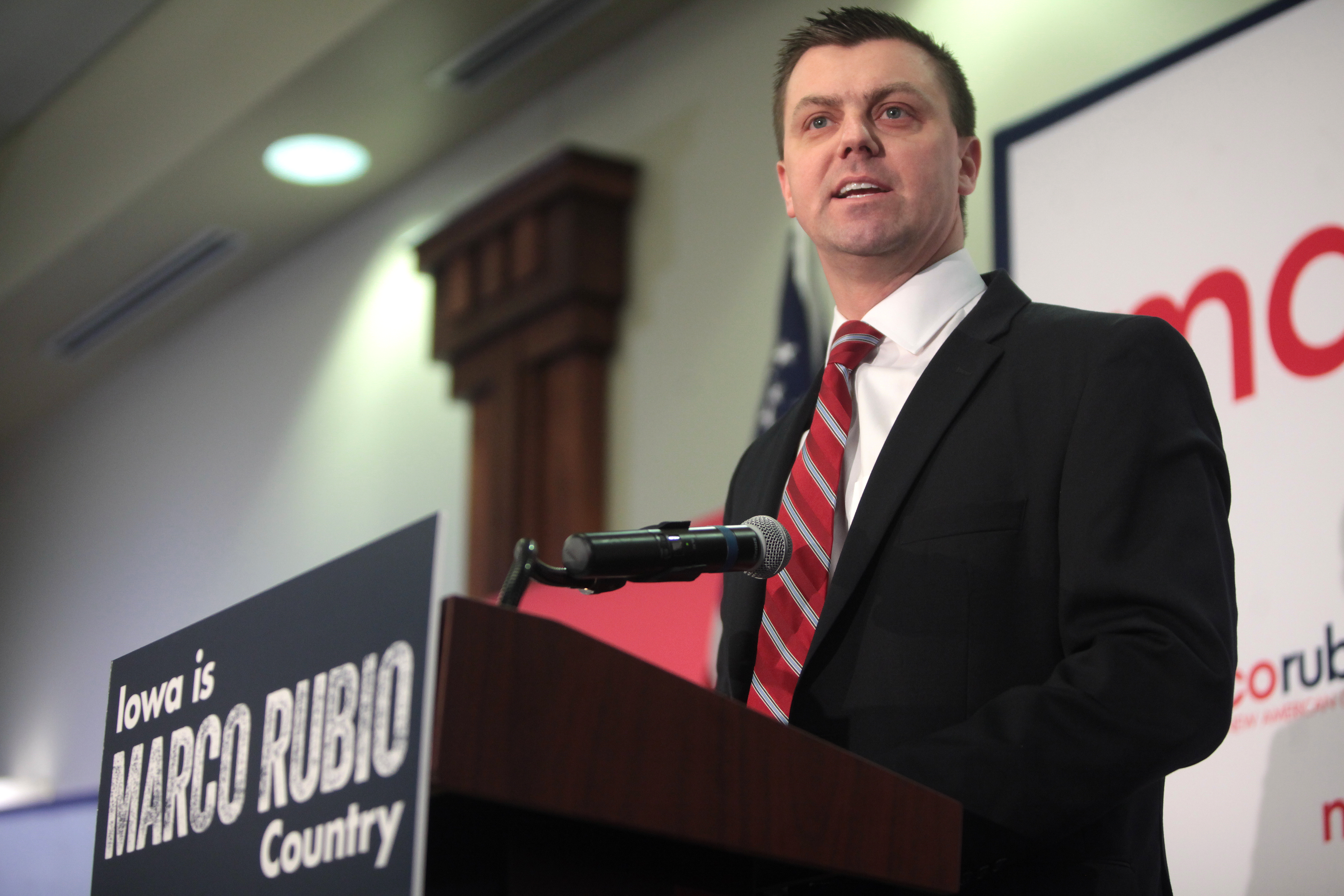 Jack Whitver speaking at an event in Des Moines, Iowa.